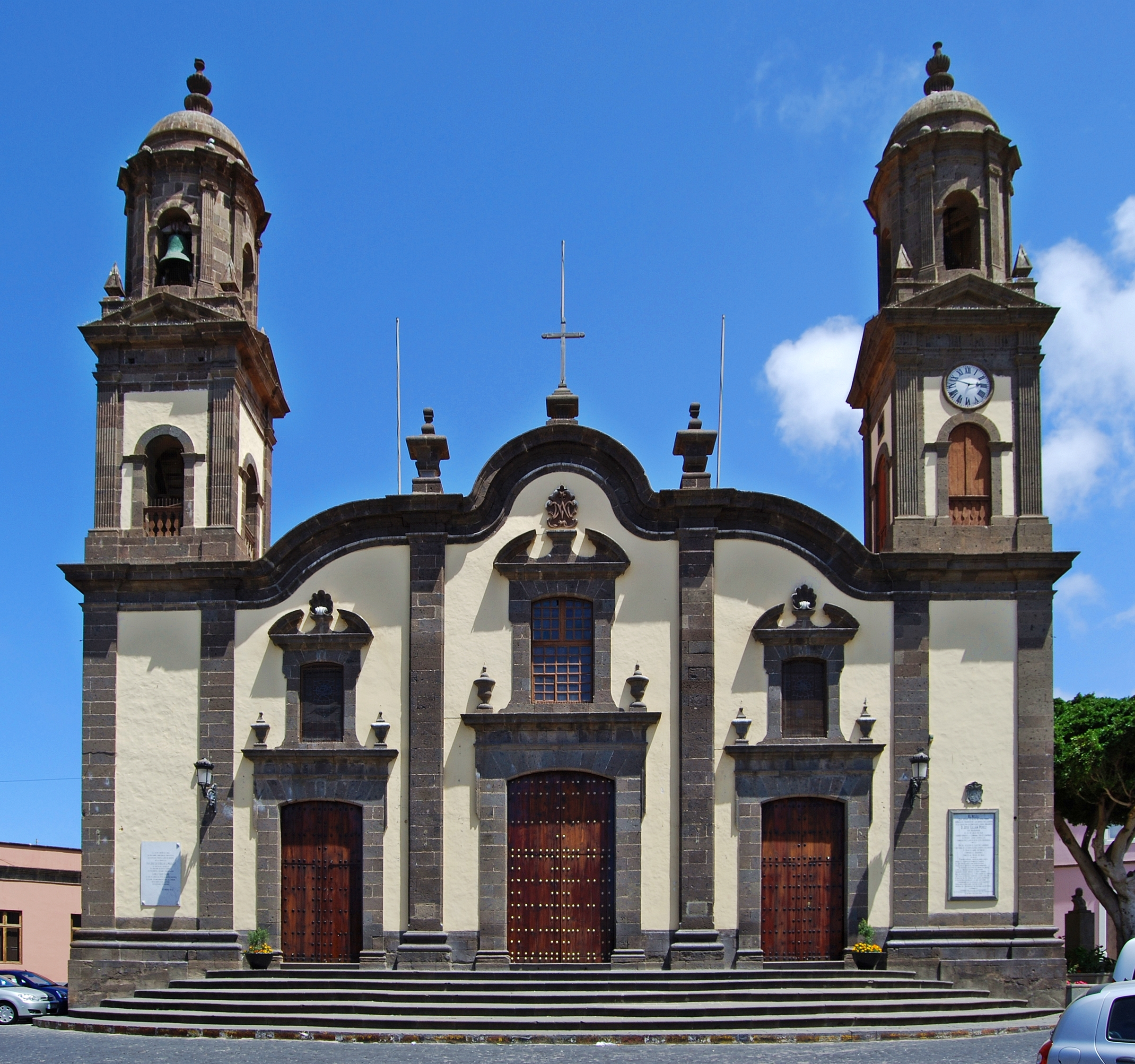 Church of Santa María de Guía de Gran Canaria.